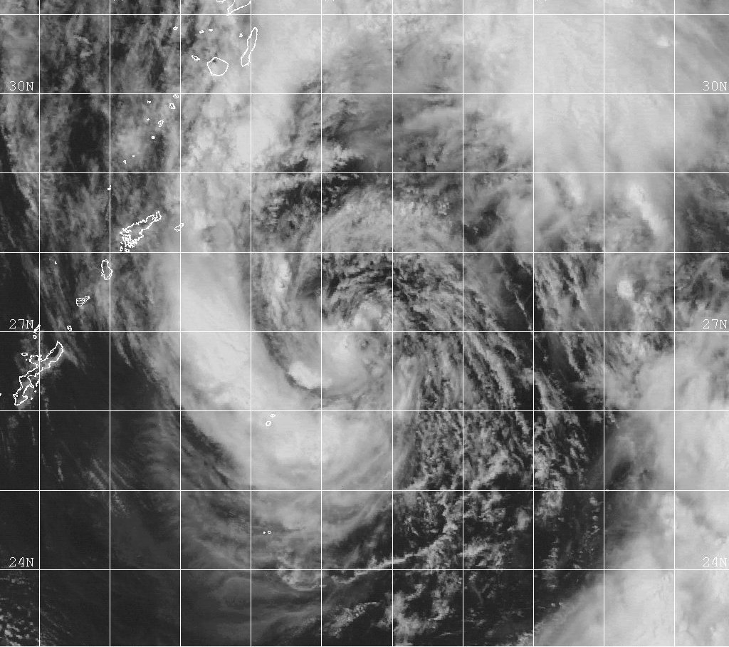 Visible image from GMS-5 of Tropical Storm Paul on 1999-08-05 to the east of Okinawa. At the time Paul was nearing its peak with 50 knot winds.